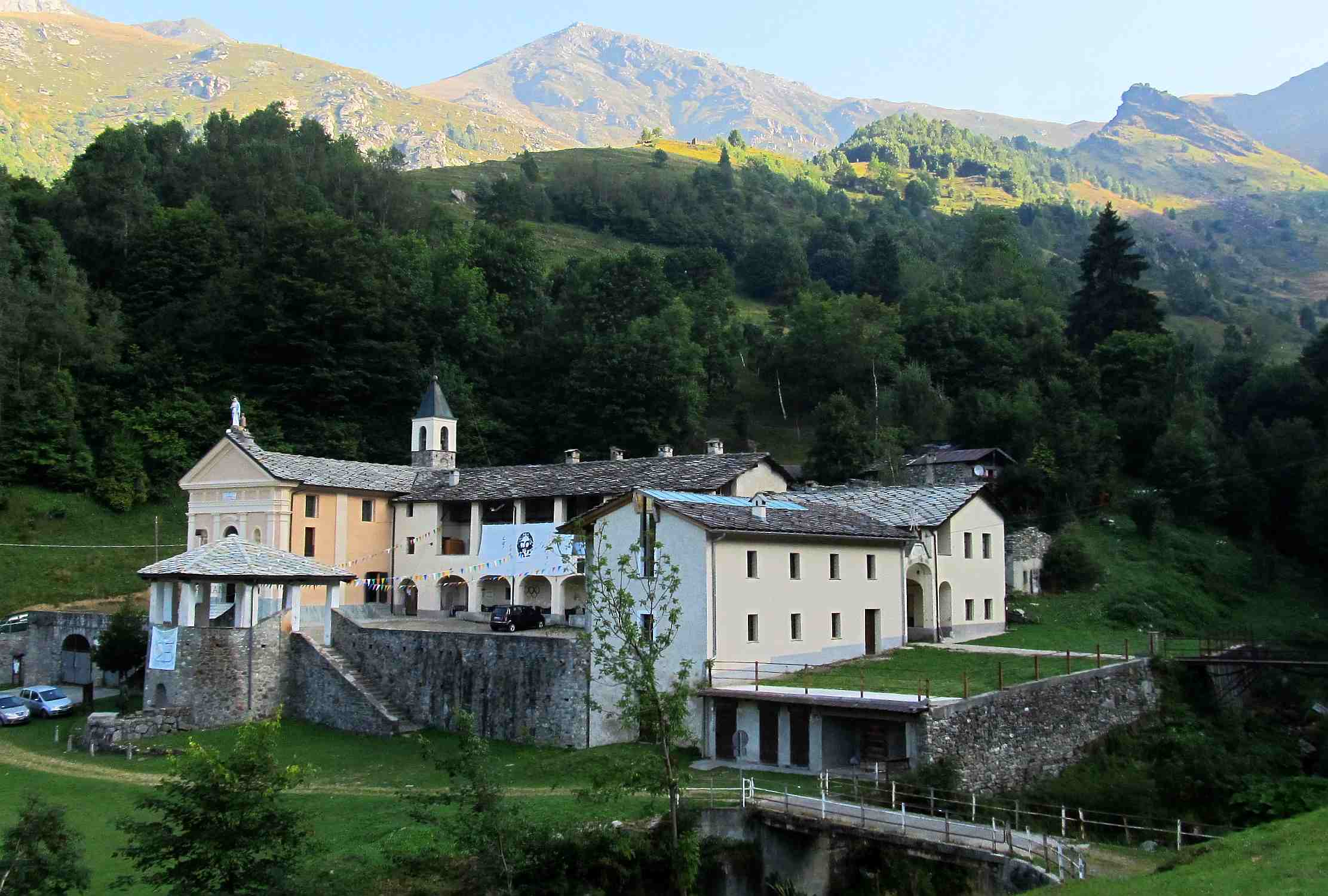 Santuario di Prascondù (TO, Italy): overall view Piemontèis: Ël santuari ëd Prascondù